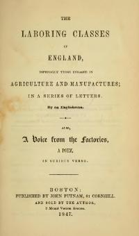 The Laboring Classes of England William Dodd published 1847